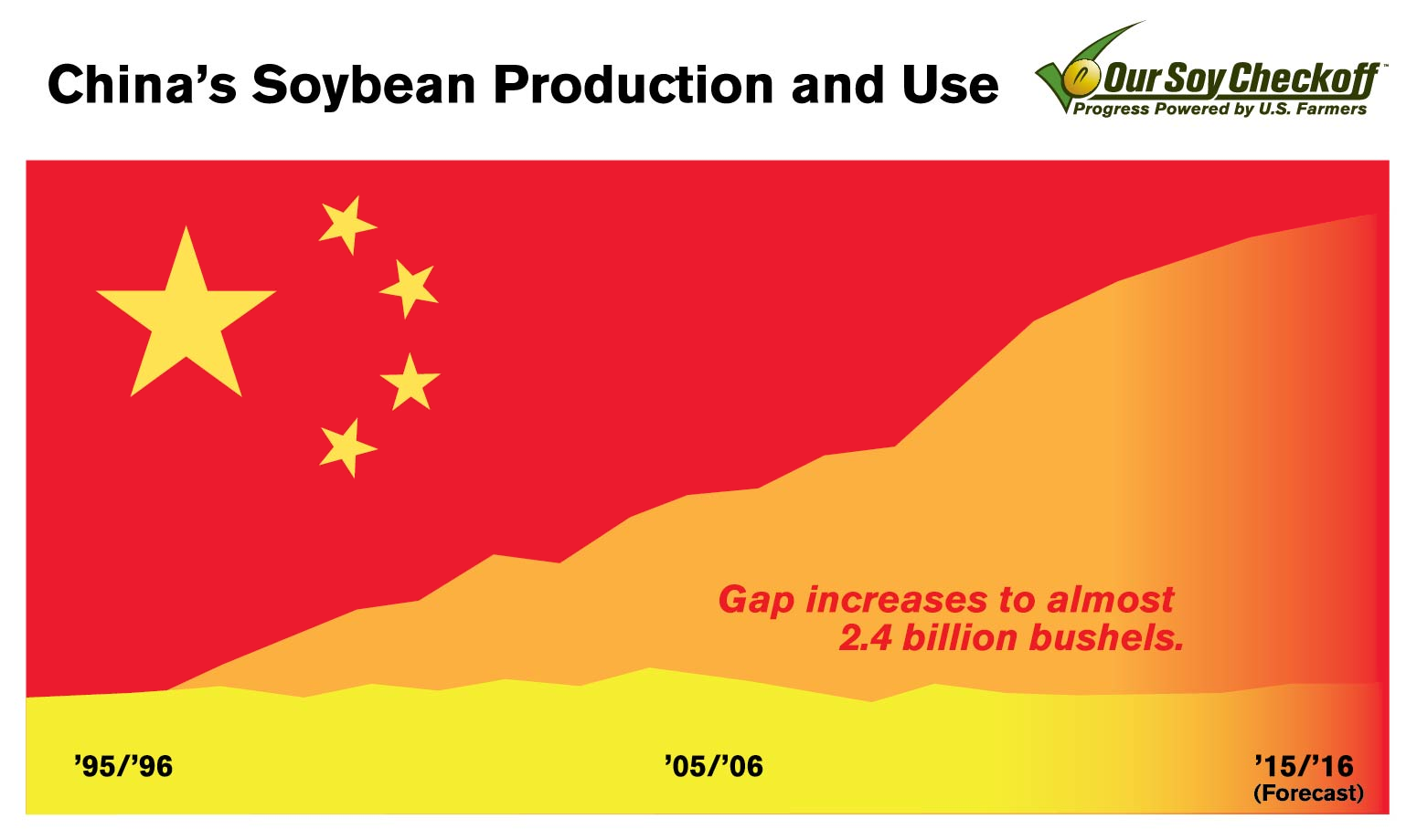 China's Soybean Production and Use